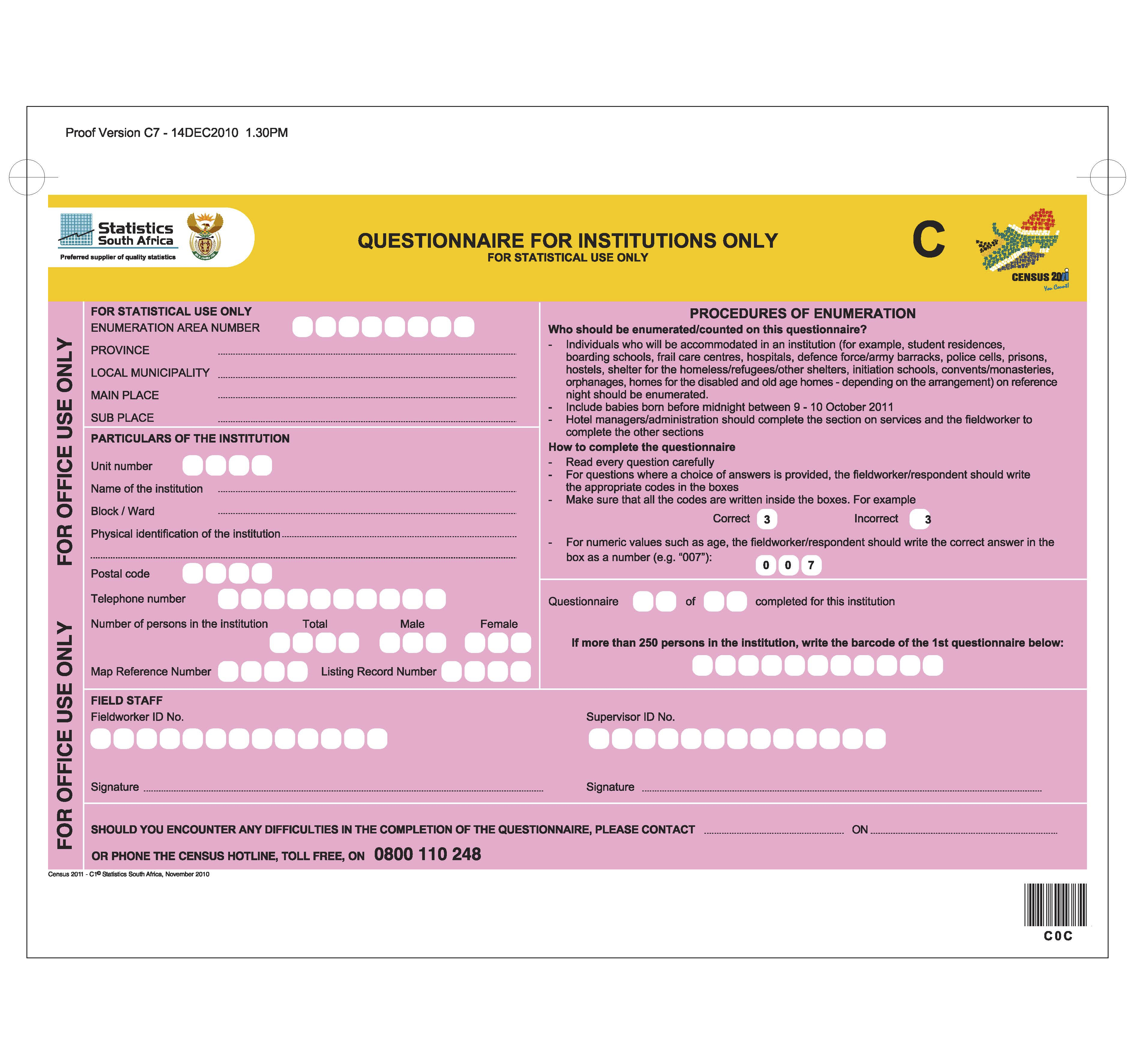 This is the cover page of the 2011 South African National Census for questionnaire C.